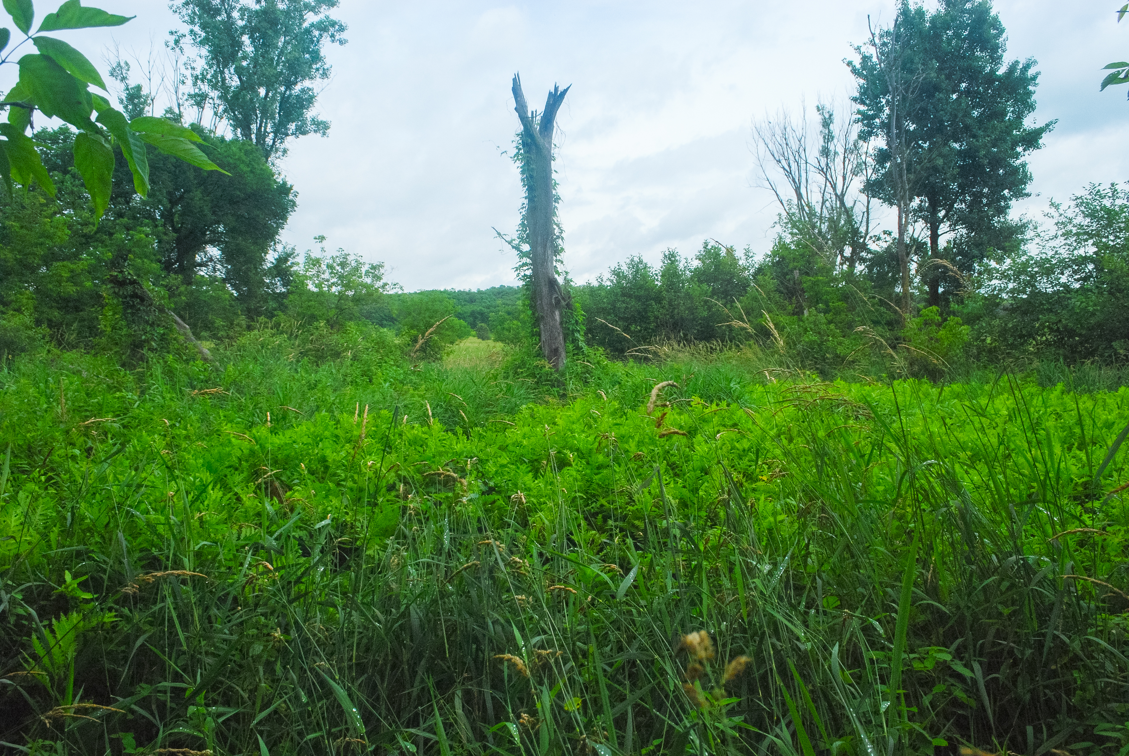 Summerton Bog Wisconsin State Natural Area #42 Marquette County